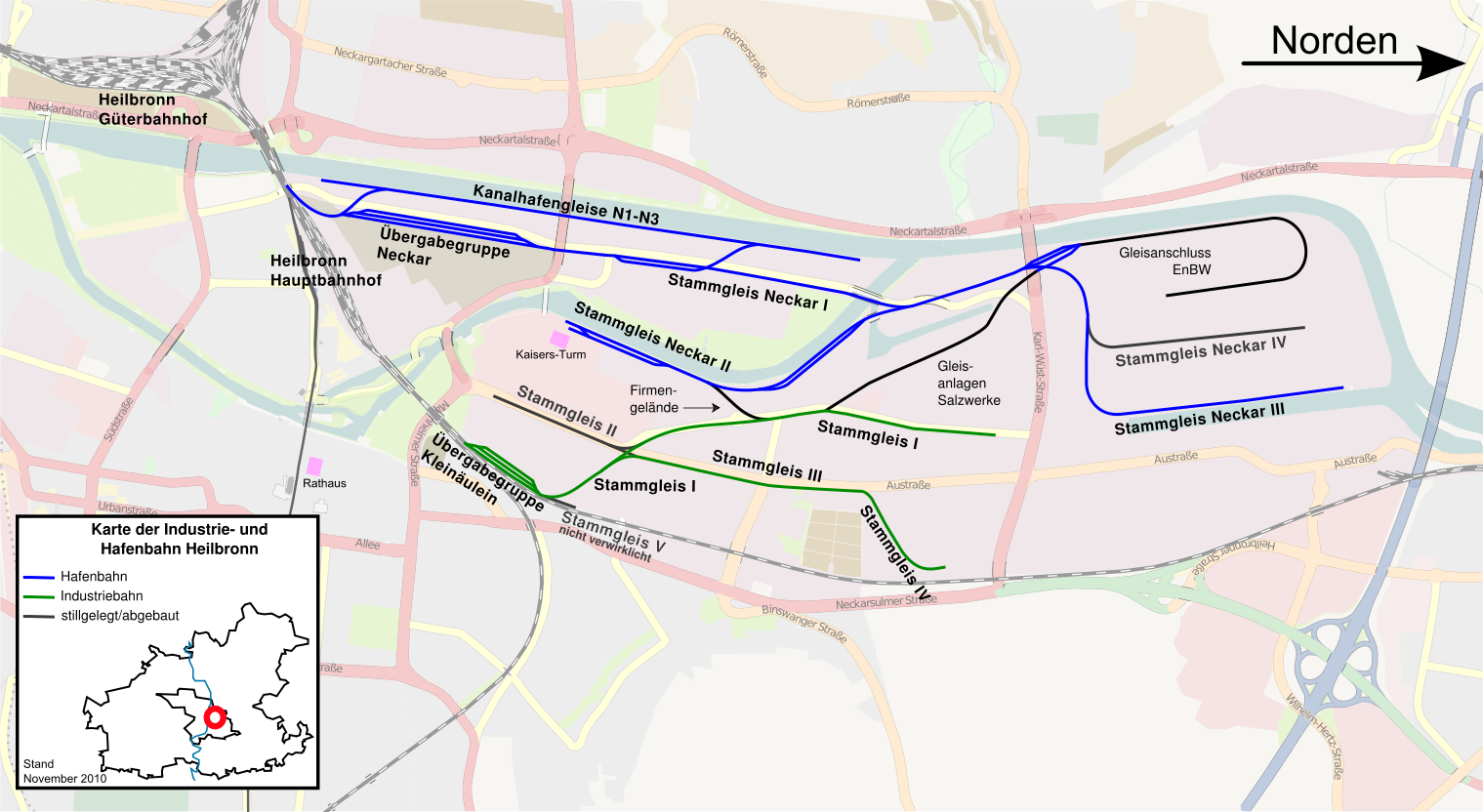 Map of the Industrie- und Hafenbahn Heilbronn